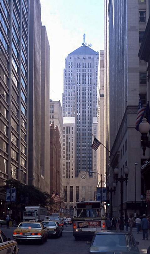 photo by Einar Einarsson Kvaran, aka Carptrash 04:02, 14 December 2006 (UTC) Chicago Board of Trade Building Category:Images of Art Deco buildings